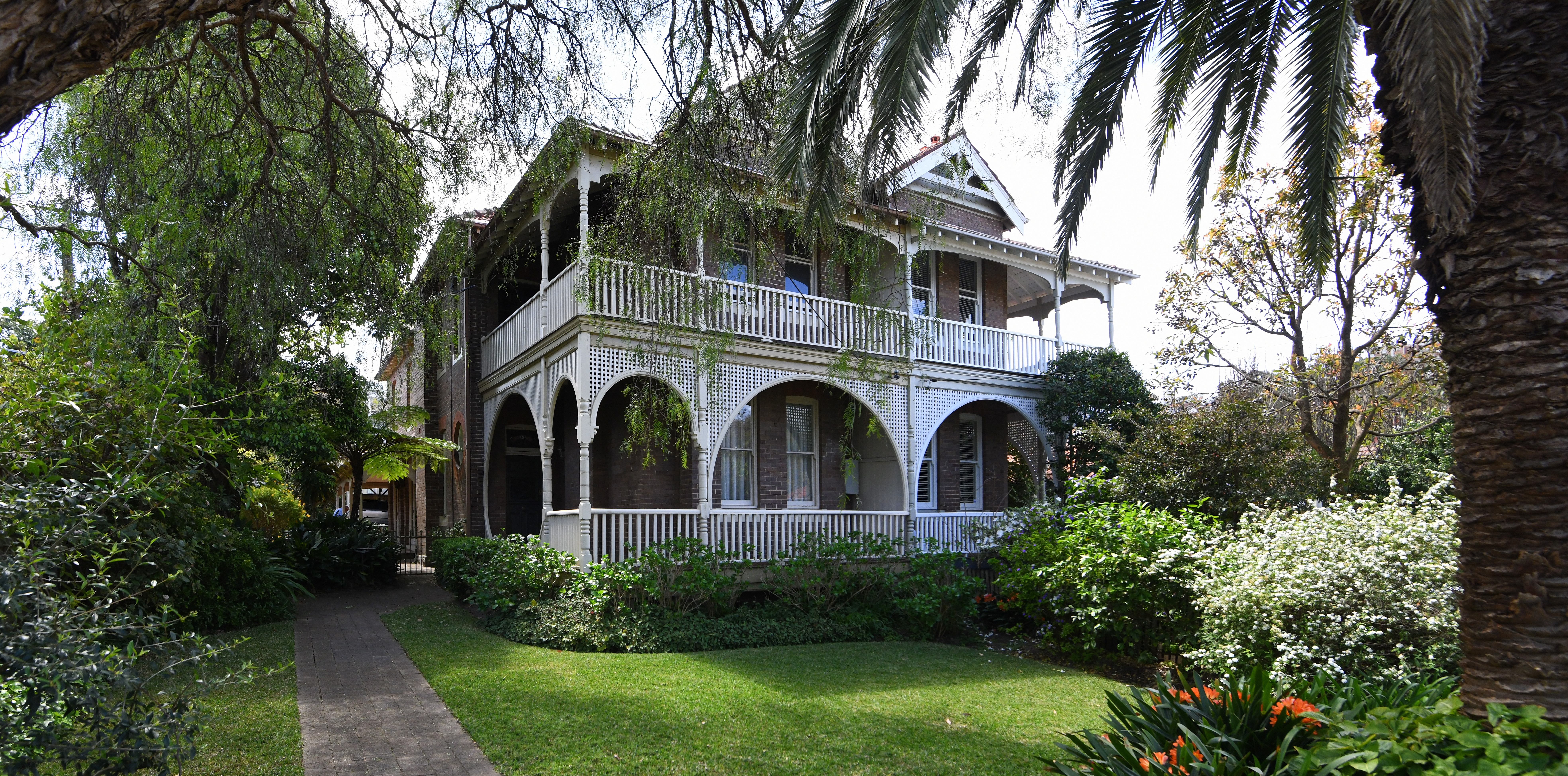 Derry, home of May Gibbs, Neutral Bay, Sydney